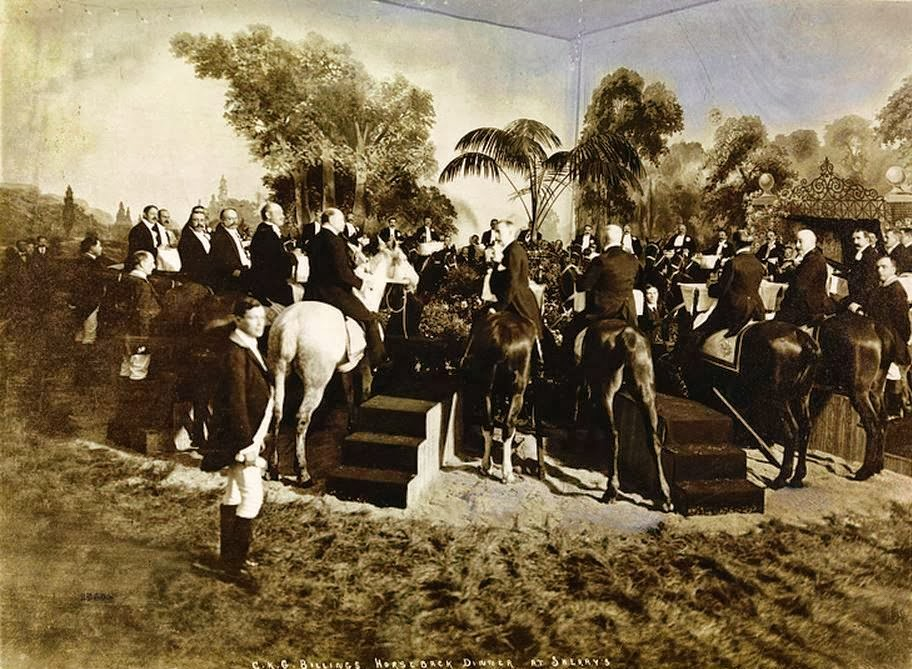 Party on horseback given by C. K. G. Billings in Sherry's ballroom, New York City, in 1903.